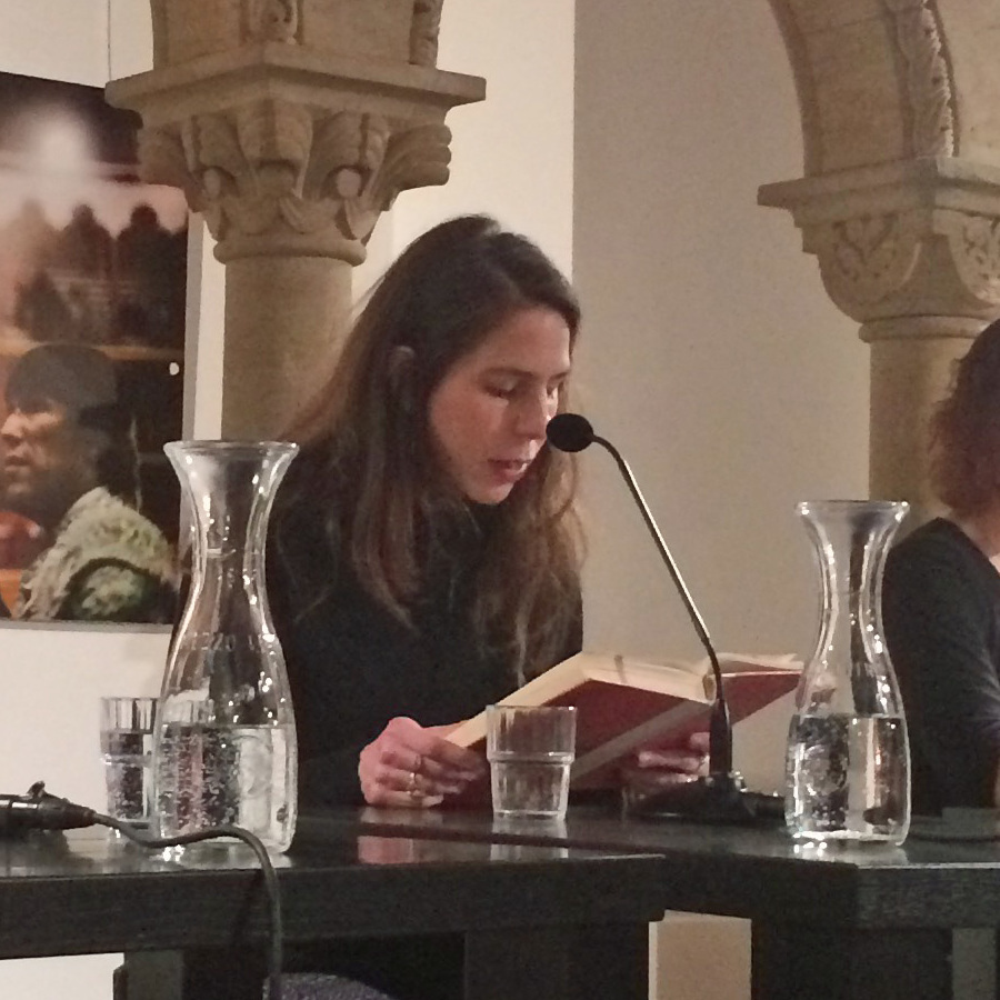 Rachel Kushner reading